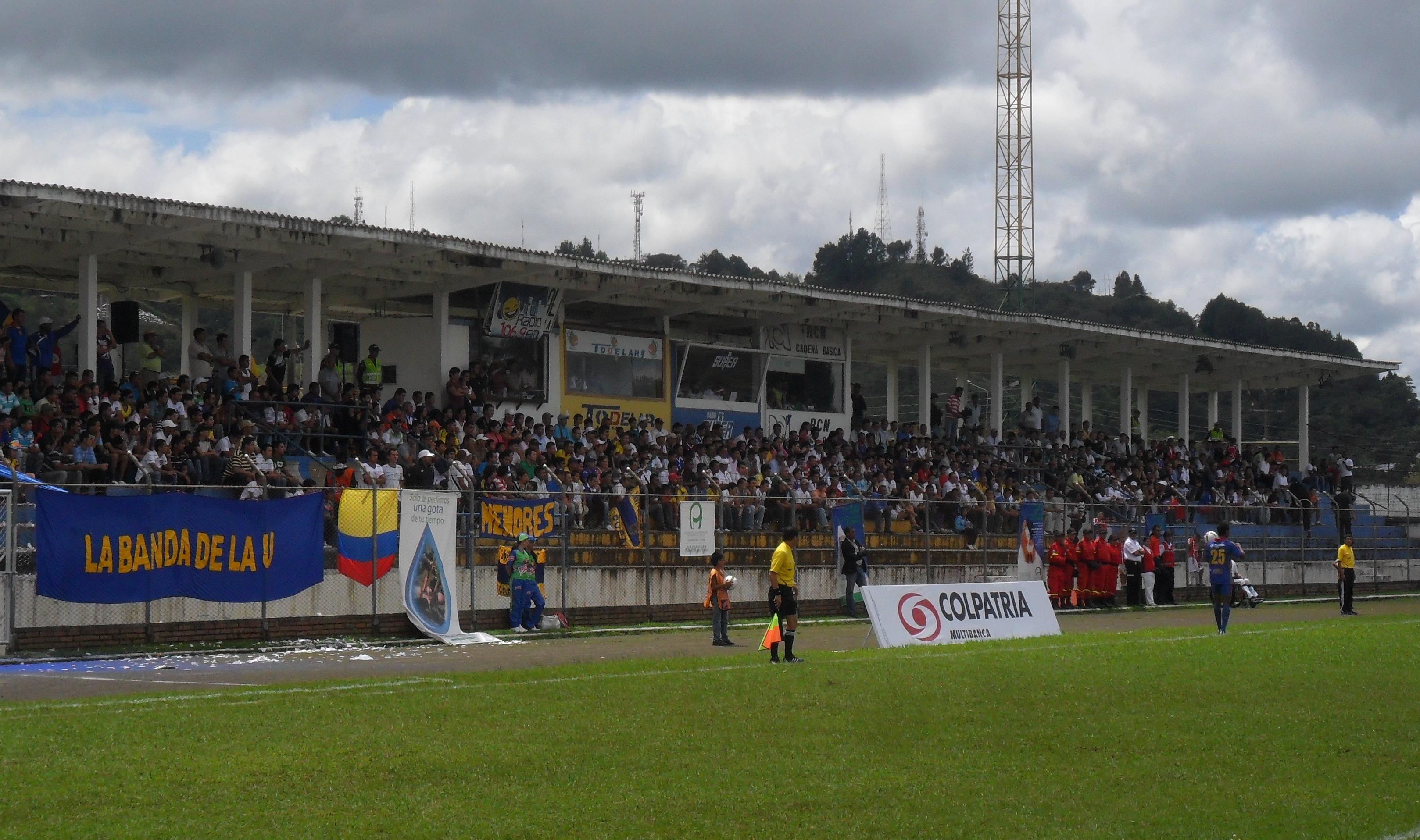 Tribuna oriental del Estadio Ciro López en la ciudad de Popayán, Cauca.